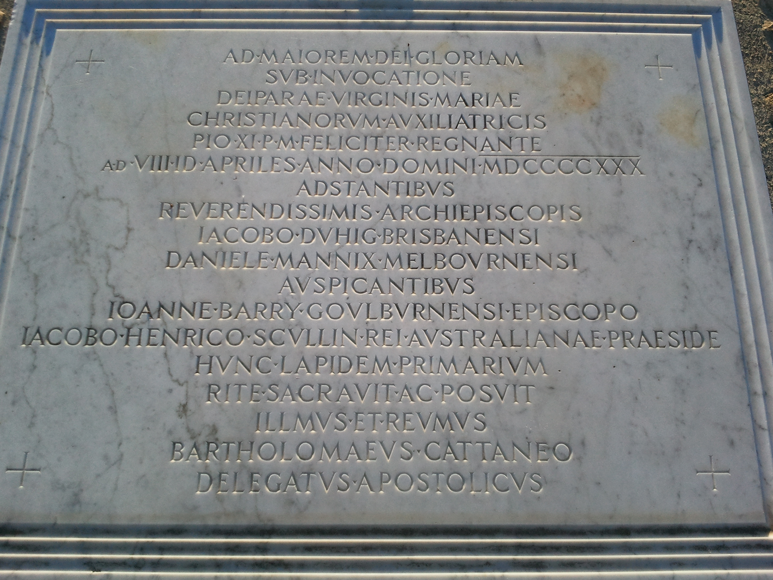 Foundation stone of the official residence of the Archbishop of the Roman Catholic Archdiocese of Canberra and Goulburn